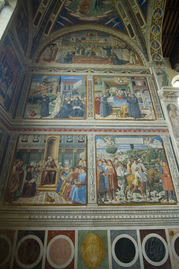 see above